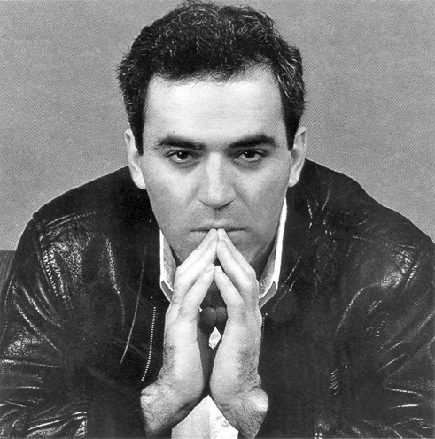 Portrait, 1993.